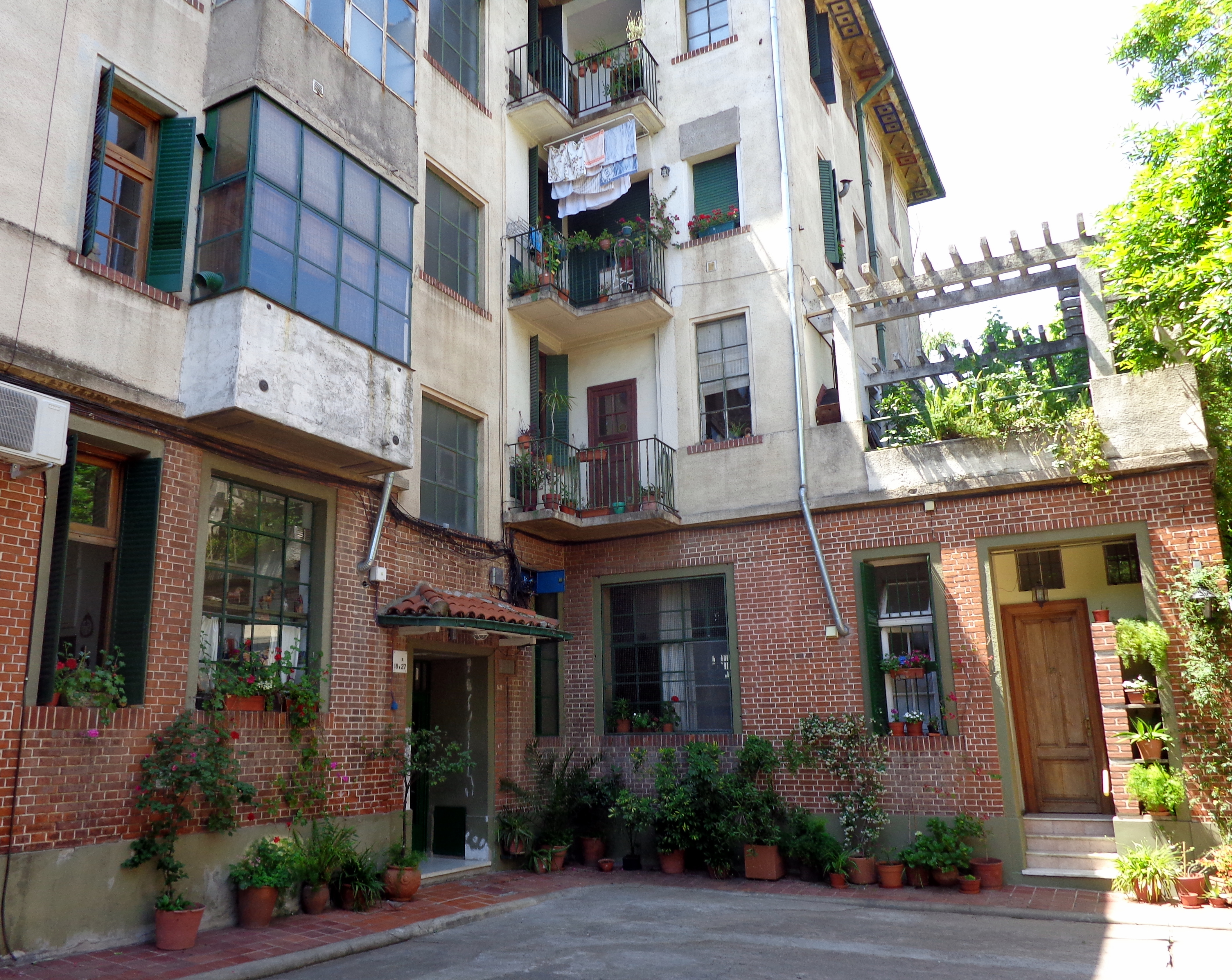 Parque Los Andes House Collective, a micro neighborhood built by the City of Buenos Aires between 1926 and 1928 in Chacarita, Buenos Aires, Argentina.